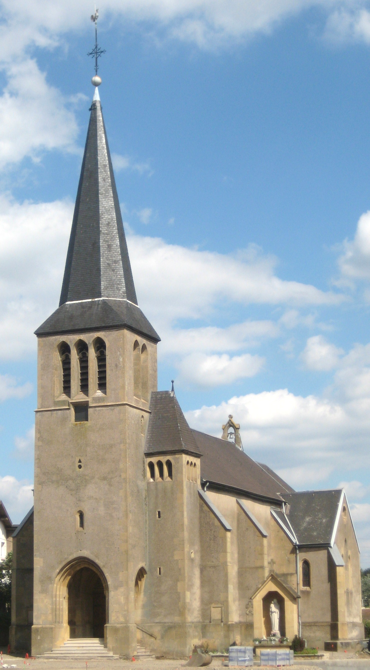 Description Église Saint-Maximin Mondelange Date25 August 2011Sourcemon appareil photoAuthorAimelaimePermission (Reusing this file) Église Saint-Maximin Mondelange